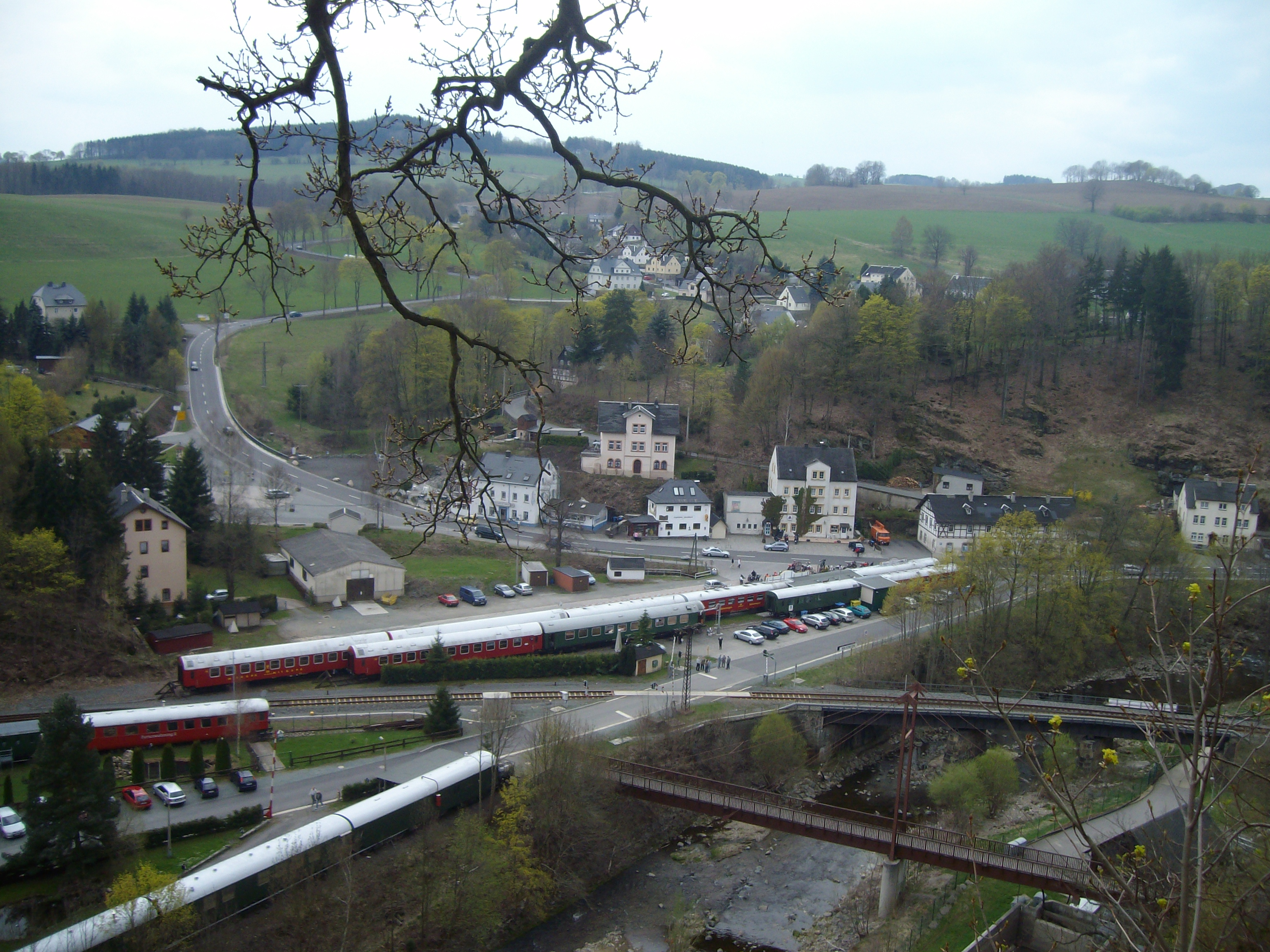 View of Schönbrun